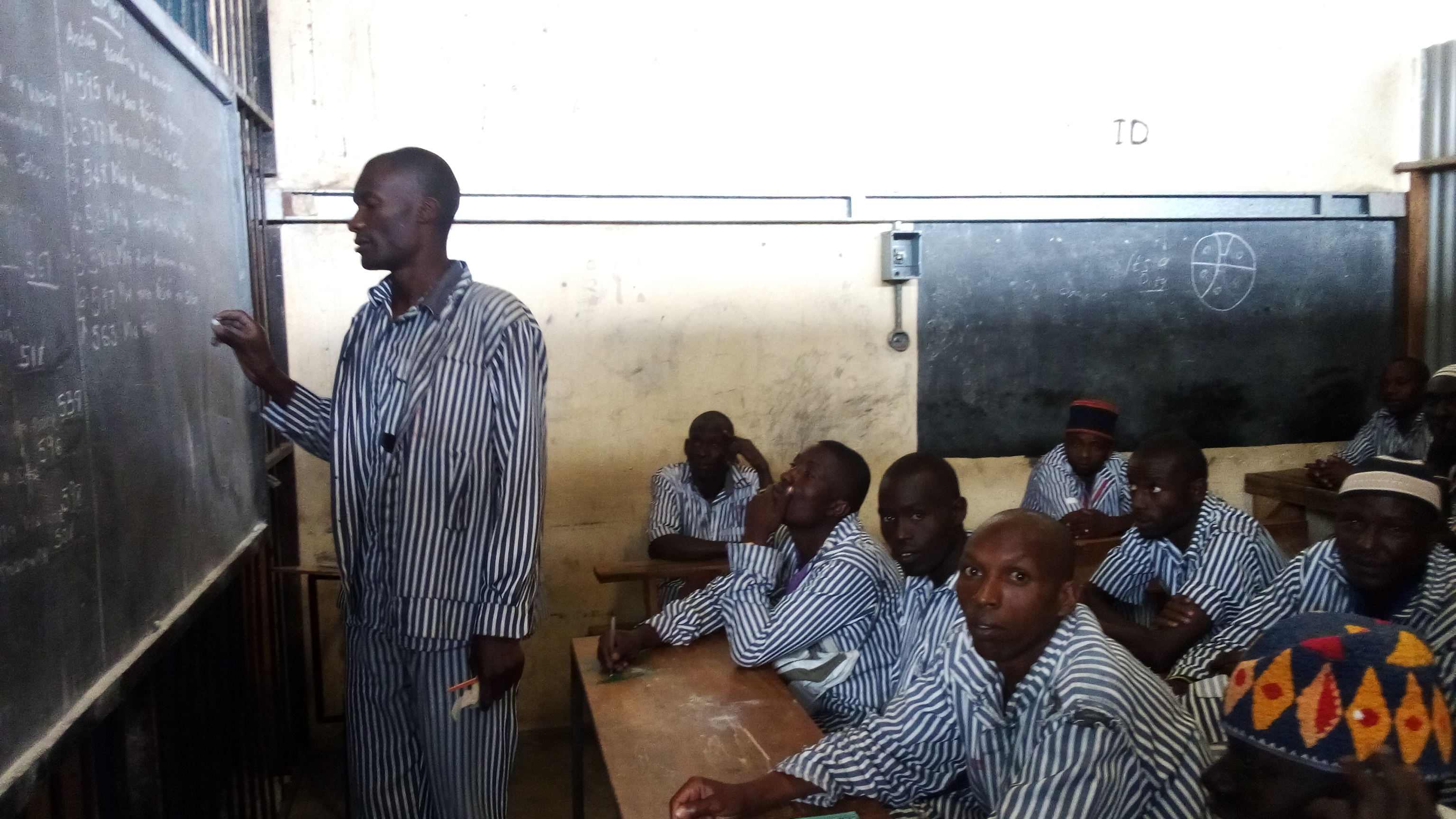 This is an image of "African people at work" from Kenya